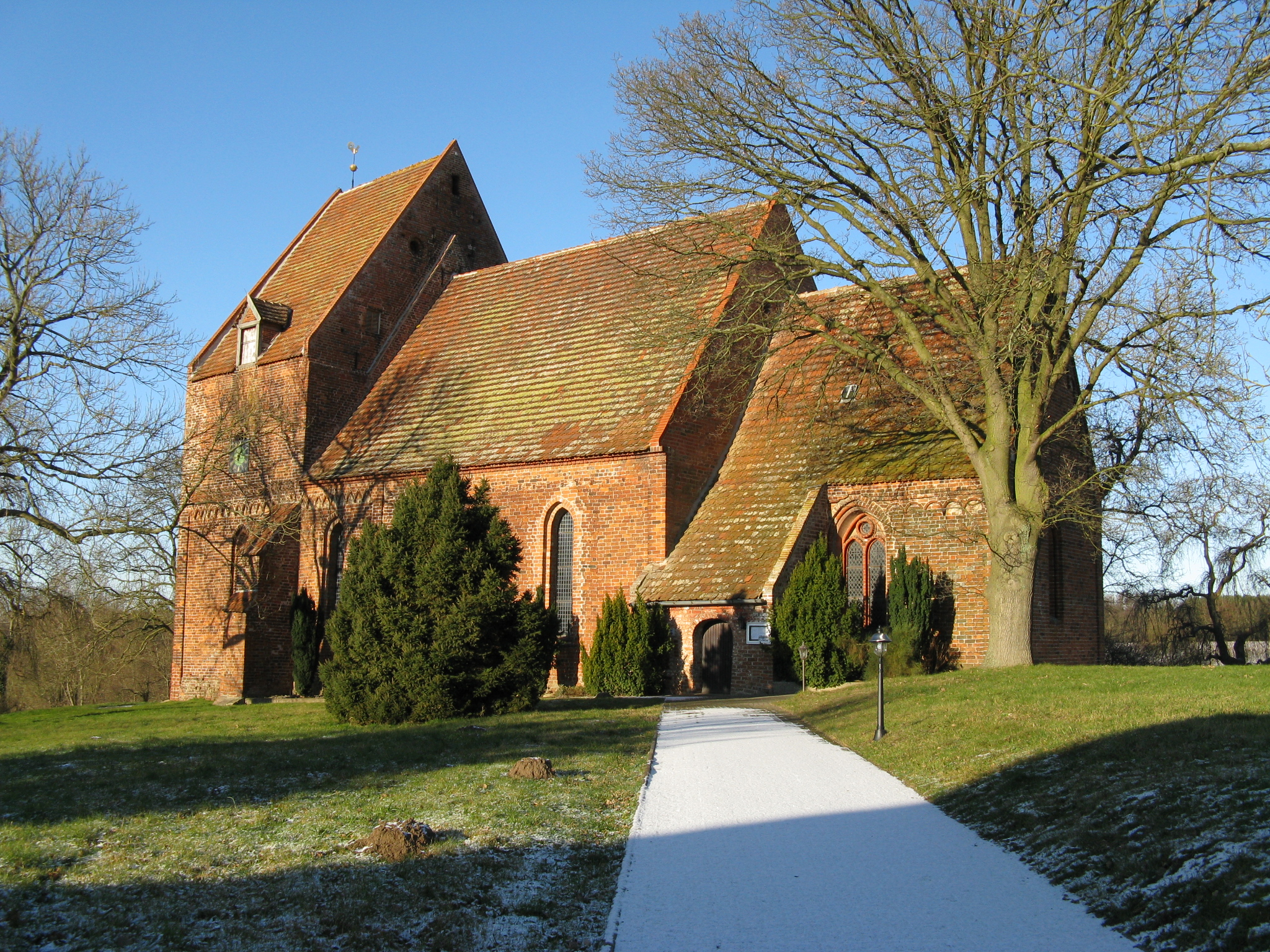 Church in Kirch Mummendorf, Mecklenburg-Vorpommern, Germany